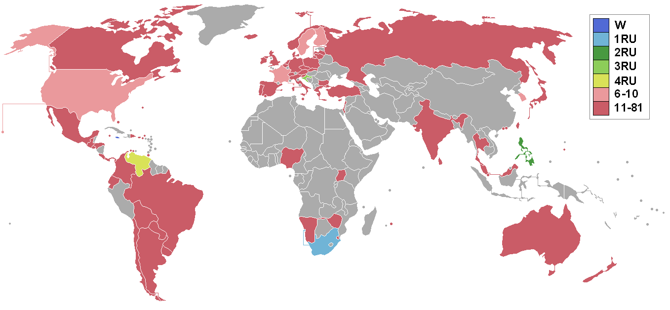 image created by Joey80